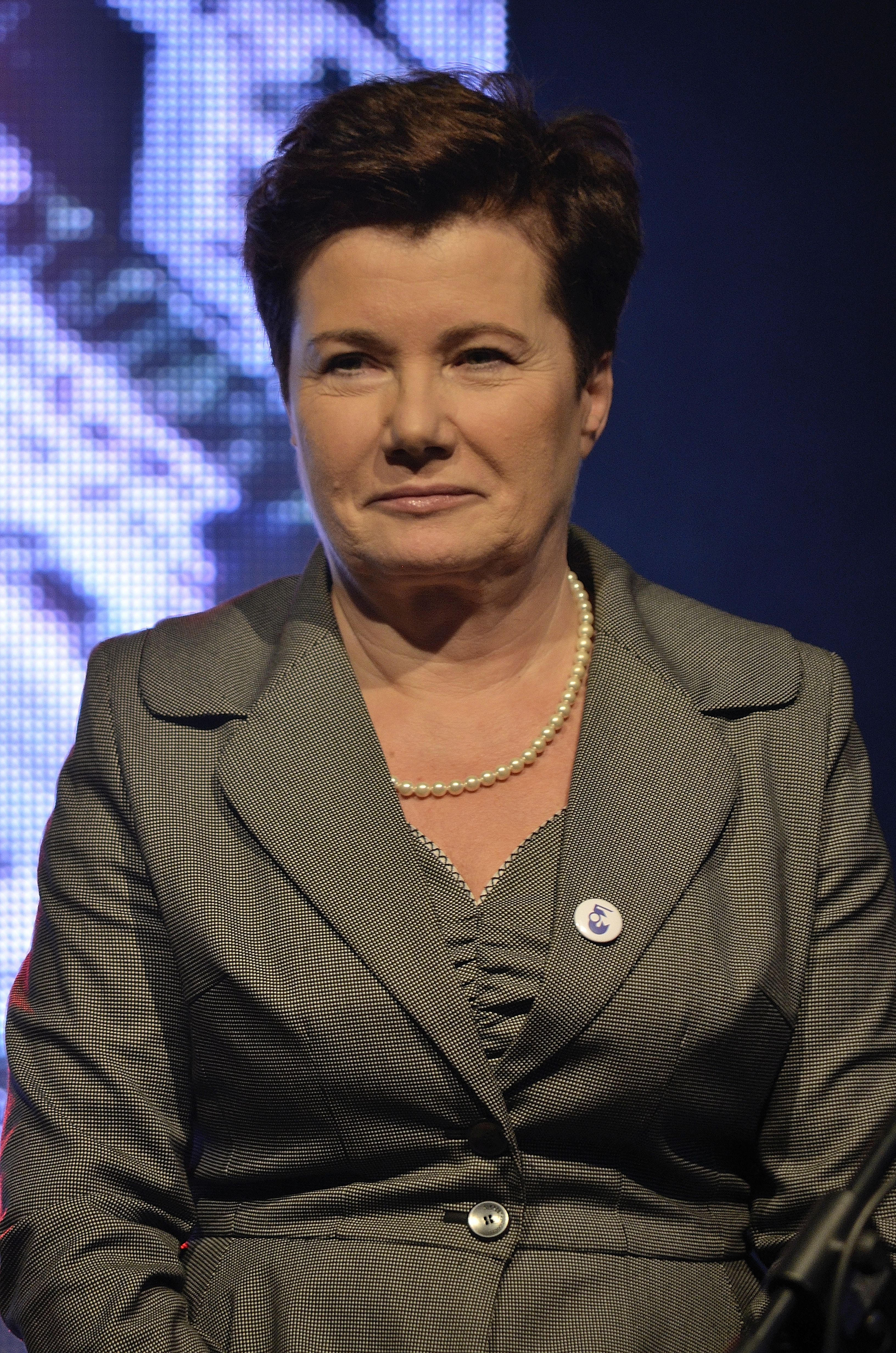 Mayor of Warsaw Hanna Gronkiewicz-Walz during the opening of permanent exhibition at Muzeum Warszawskiej Pragi